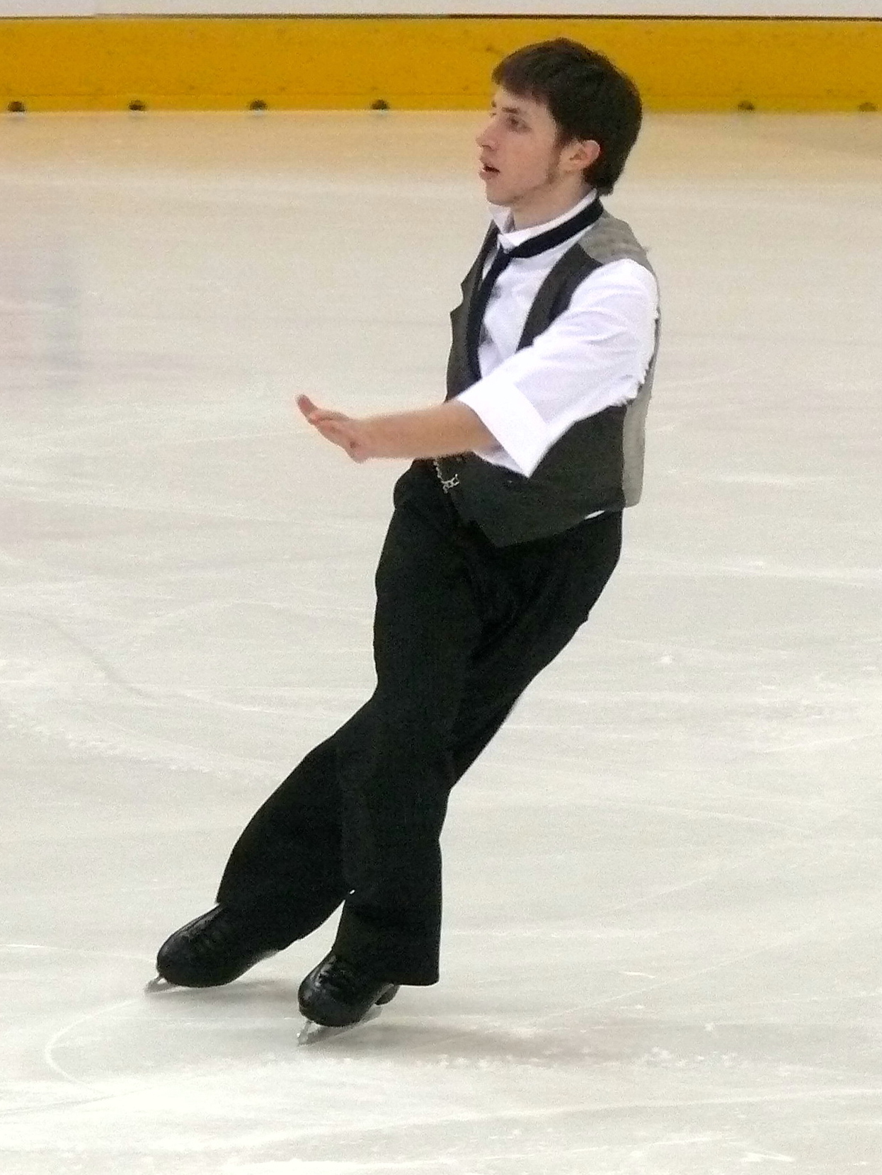 Clemens Brummer at the short program at the German championships 2008 in Dresden